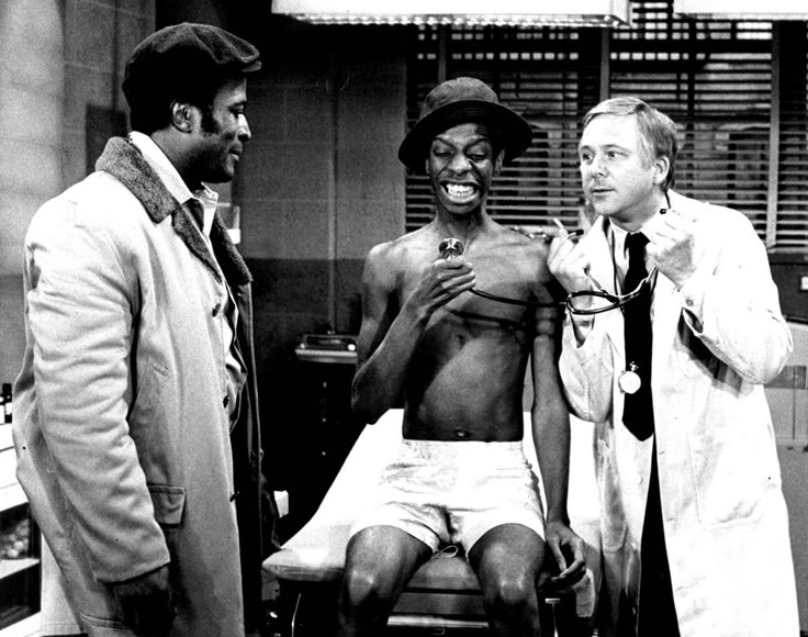 Photo from the television program Good Times. Pictured from left: John Amos (James Evans), Jimmie Walker (J.J. Evans), William Christopher (Army doctor). In this episode, James tries to talk J.J. out of joining the army.